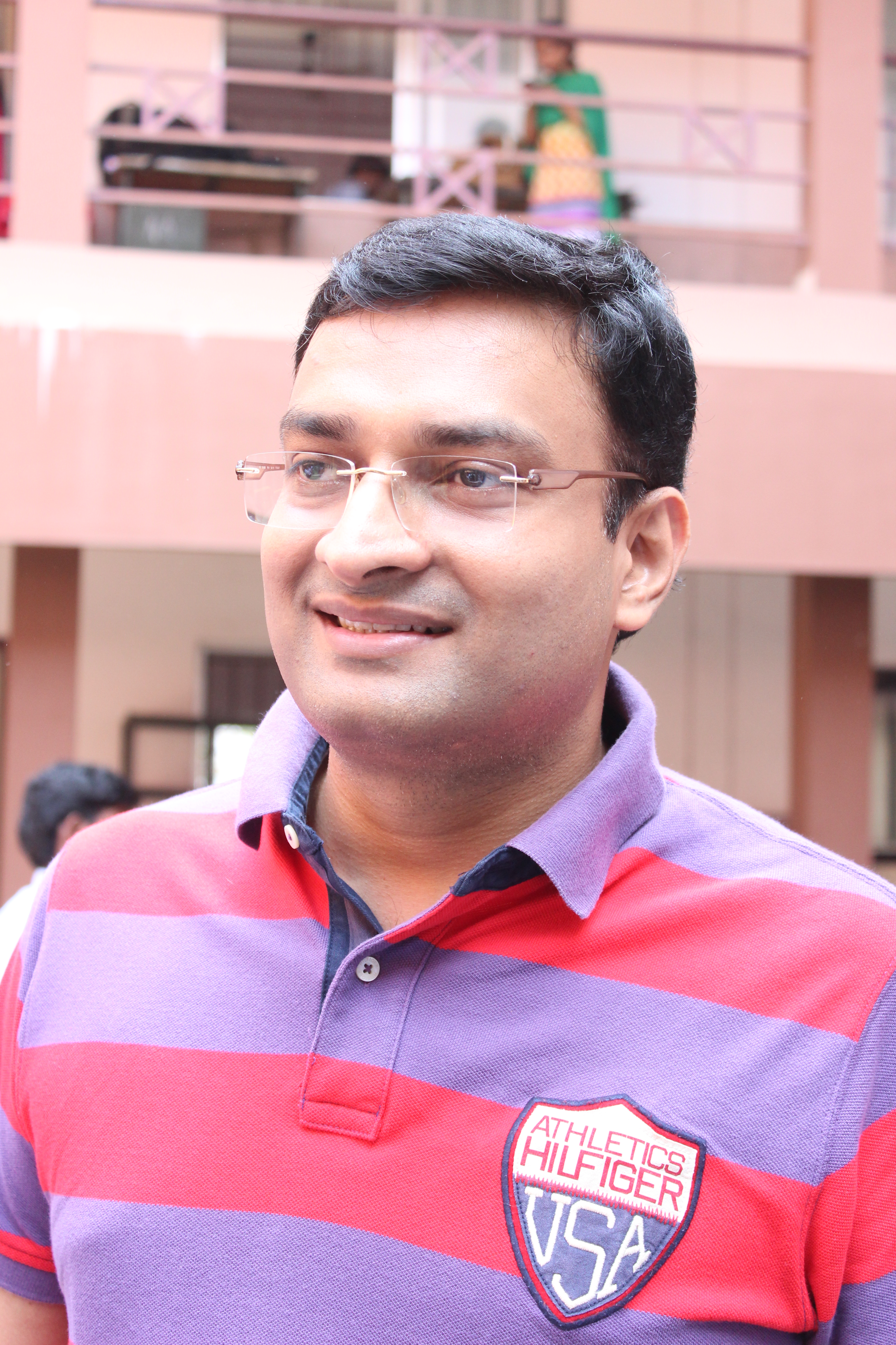 N Prashant IAS